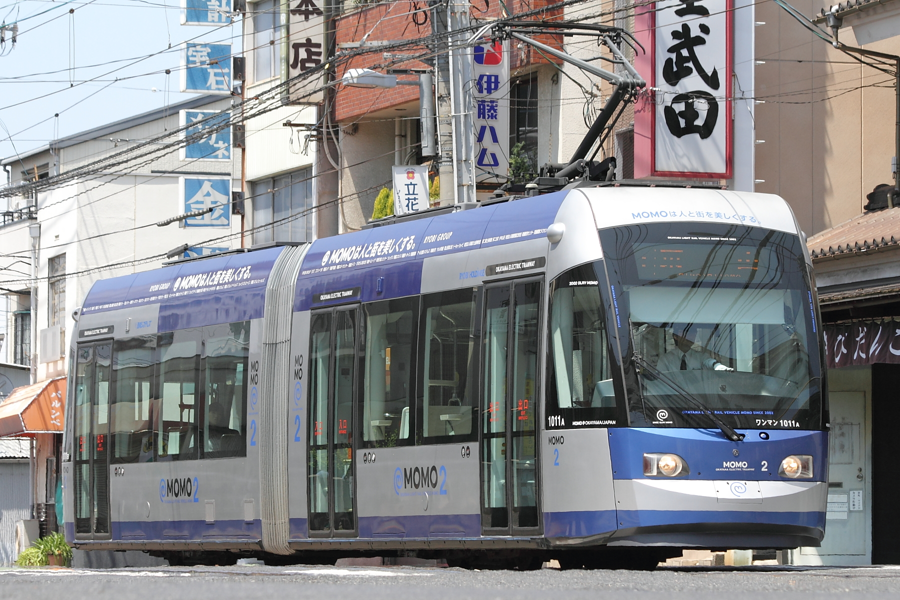 Okayama Electric Tramway Type 9200 low-floor tram, car number 1011 ("MOMO2").